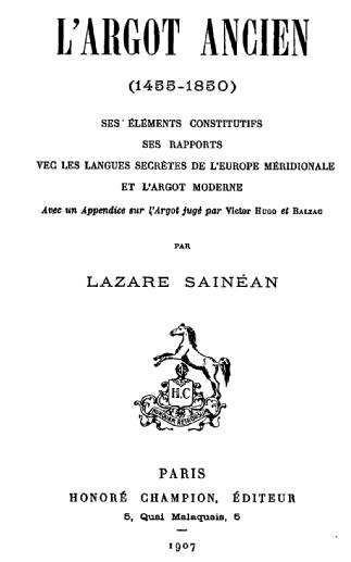 Cover of L'Argot ancien, a French-language work by the Romanian-born linguist Lazăr Şăineanu (credited as Lazare Sainéan).